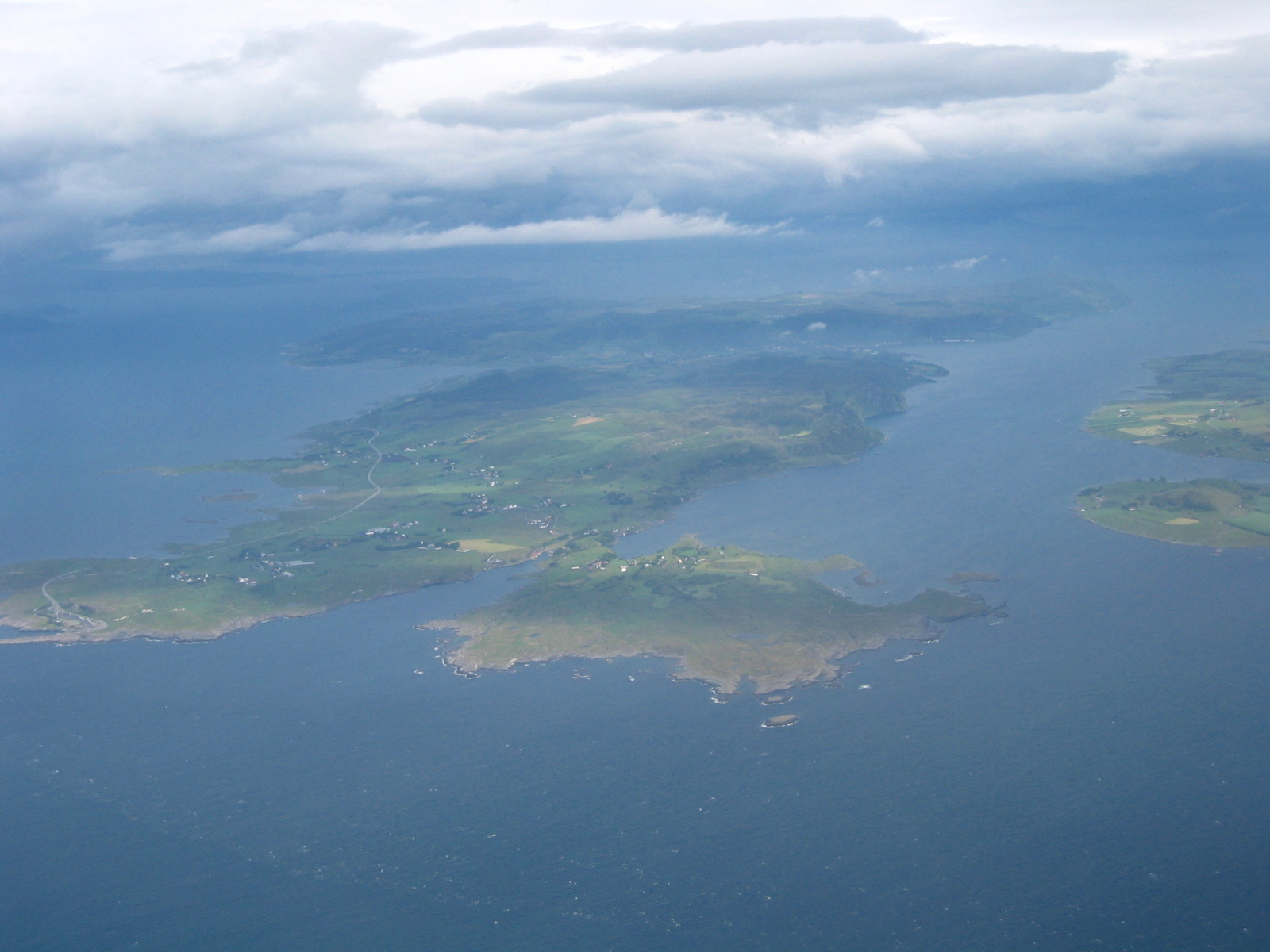 A bit of western Norwegian coastline taken from the air, on the way from London to Haugesund.